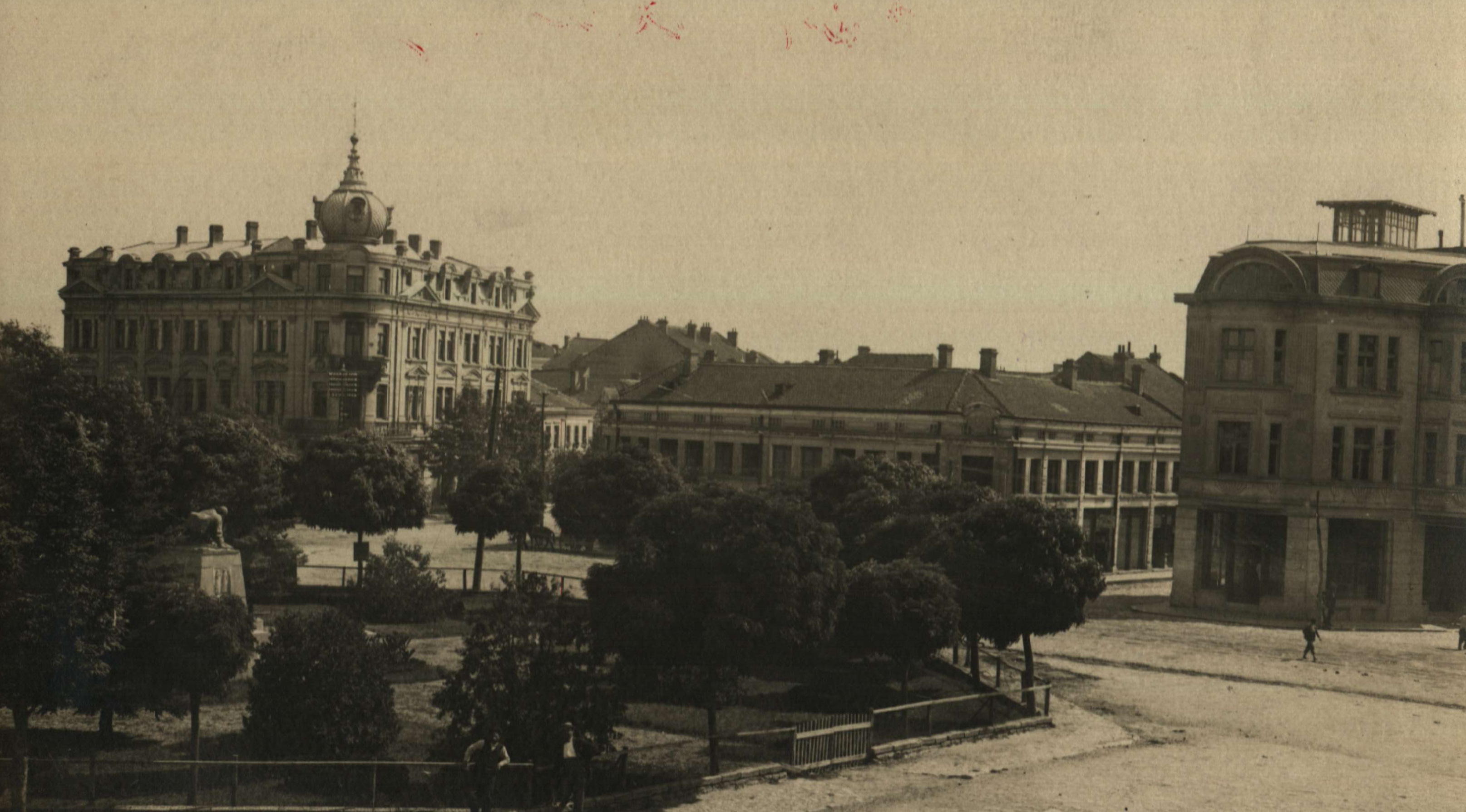 Bulgaria, Vidin, Bdintsi square: the former garden with the Monument of the fallen in the Serbian-Bulgarian War of 1885 (located today on Unification square), the building of Toma Lozanov (left), a former building in the centre, preserved building (right).